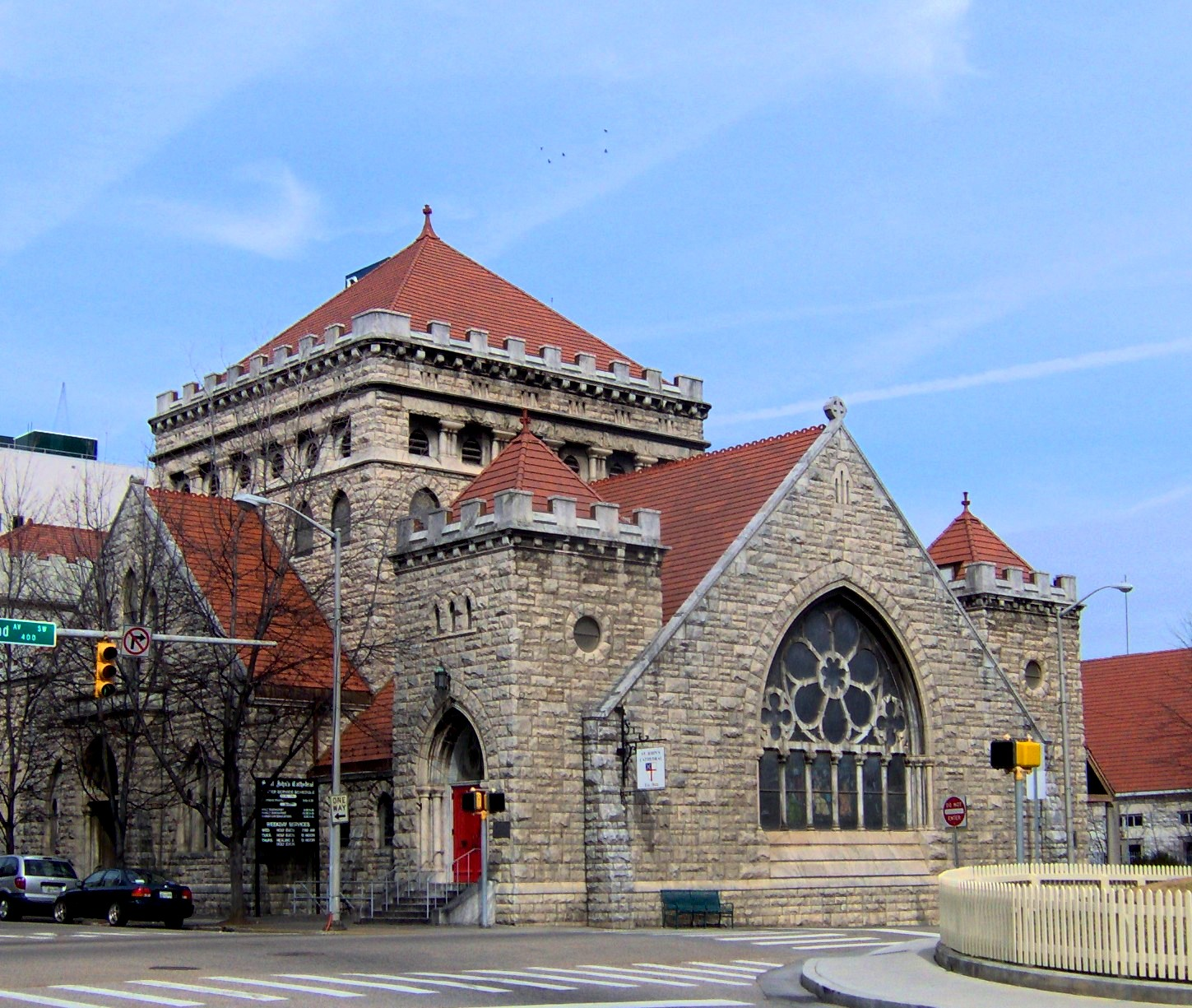 St. John's Cathedral in Knoxville, Tennessee, in the southeastern United States. This cathedral was built in the 1890s and restored after a fire gutted the interior in 1919.